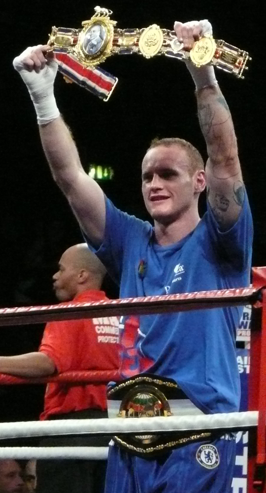 George Groves at Wembley Arena, celebrating his second-round TKO victory over Paul Smith. He is shown holding the British super-middleweight title aloft, and wearing the Commonwealth super-middleweight title.